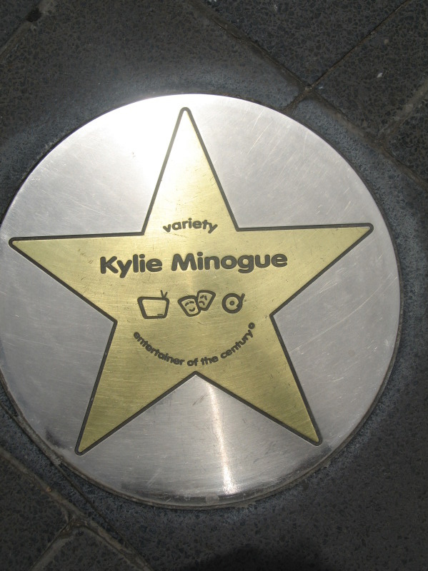 Pic taken in Melbourne in 2007.